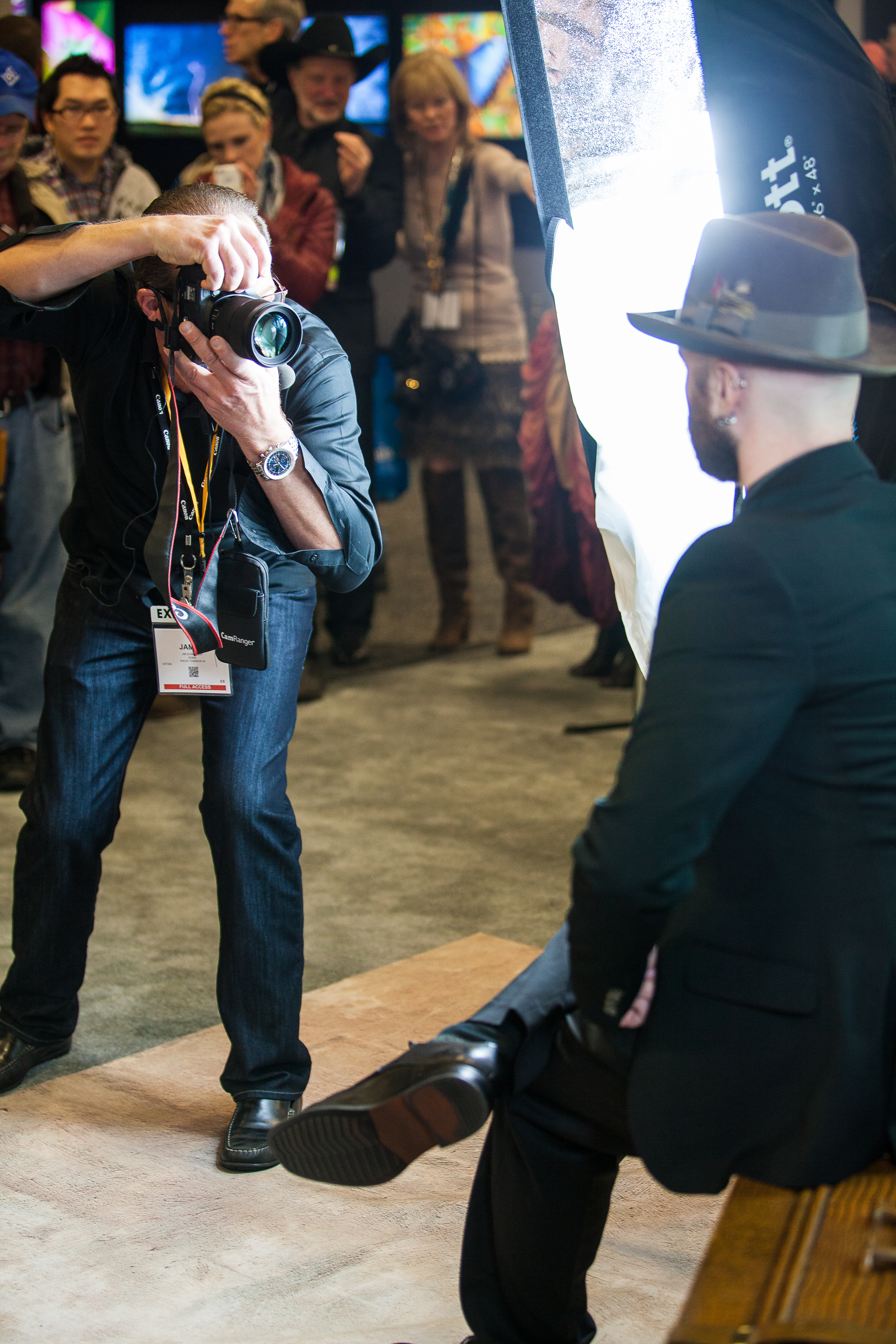 Alex the Photo Guy (Professional Photographers of America)